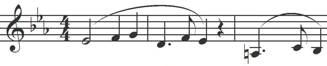 switched to png from gif